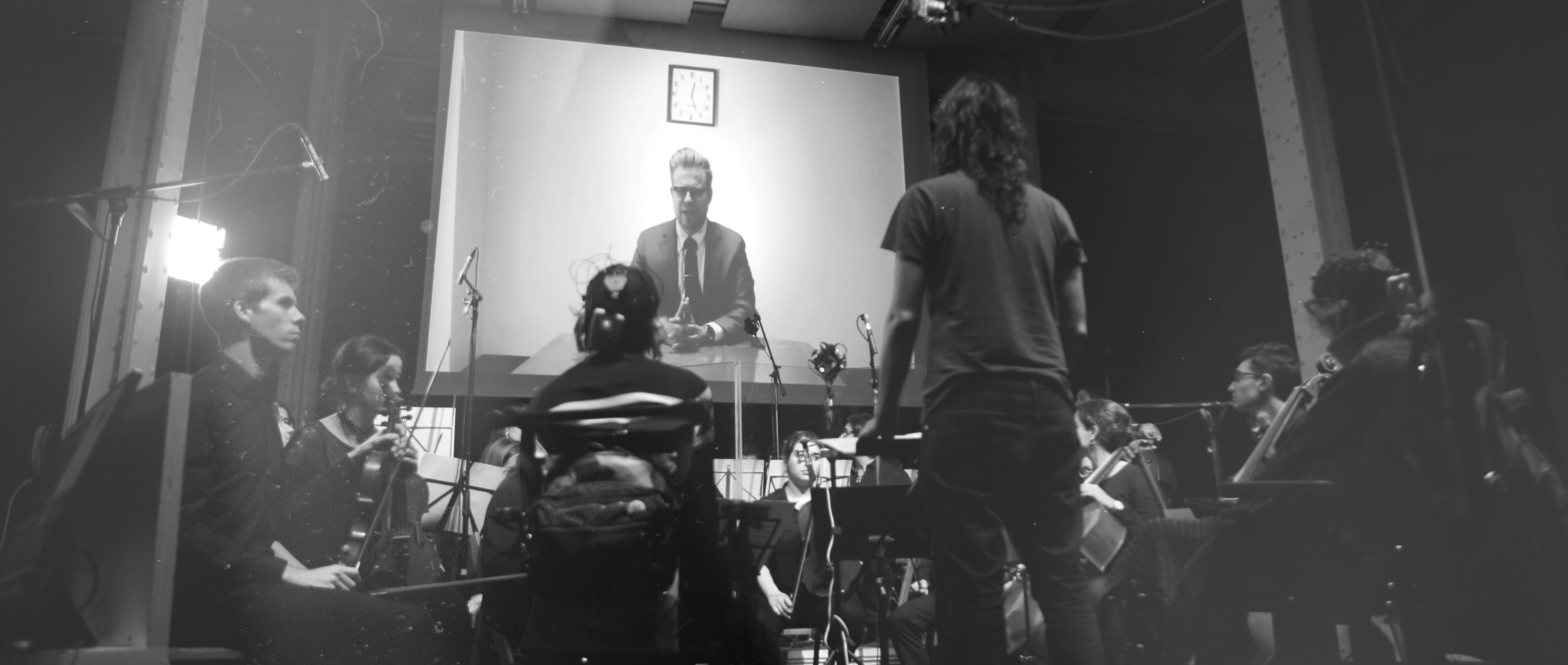 Spanish composer Javier Bayon conducting JOSC.